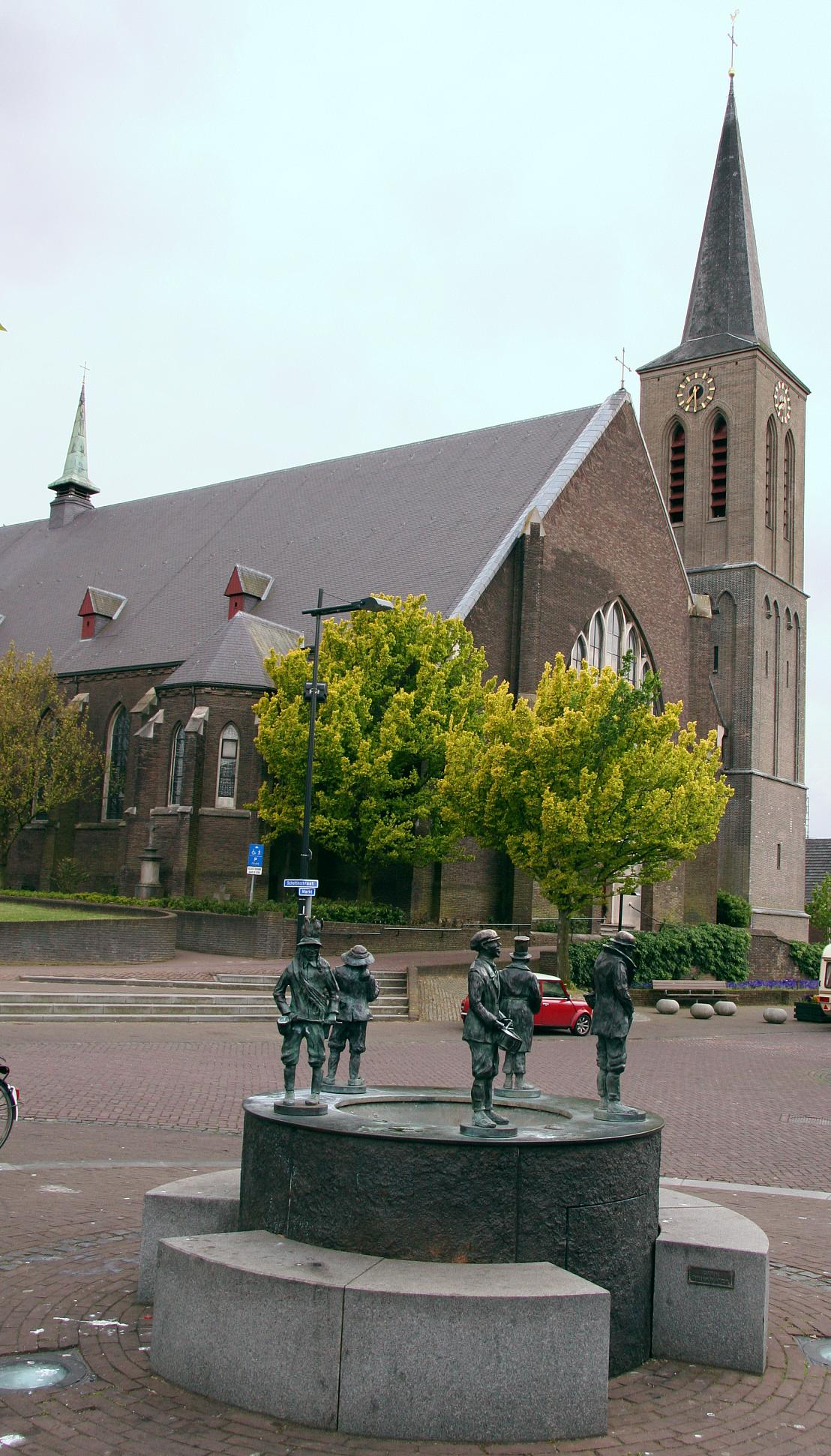 Andreas Church Velden, Limburg (Nl)